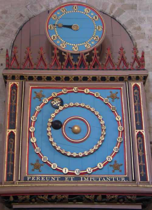 Clock in Exeter cathedral in Exeter, Devon, England. The Latin motto Pereunt et imputantur is from a text by Martial: bonosque soles effugere atque abire sentit, qui nobis pereunt et imputantur, which means "each of us feels the good days speed and depart, and they are lost and counted against us".